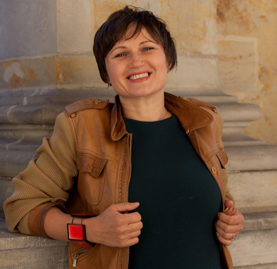 September 2015